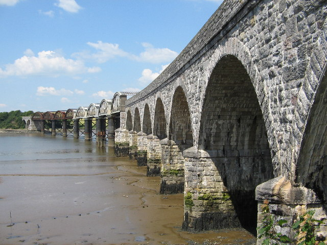 Railway Bridge over the River Tavy. The Plymouth-Calstock line is still active and here it cuts across the end of a designated nature reserve near Tamerton Foliot.